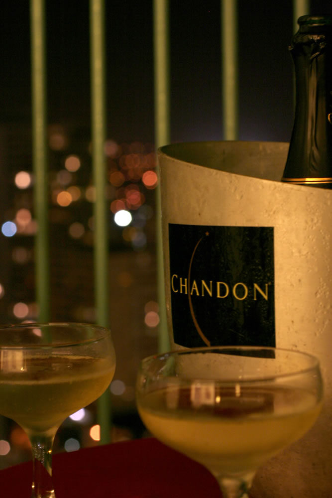 Domaine Chandon sparkling wine in an ice bucket with two Champagne coupes.